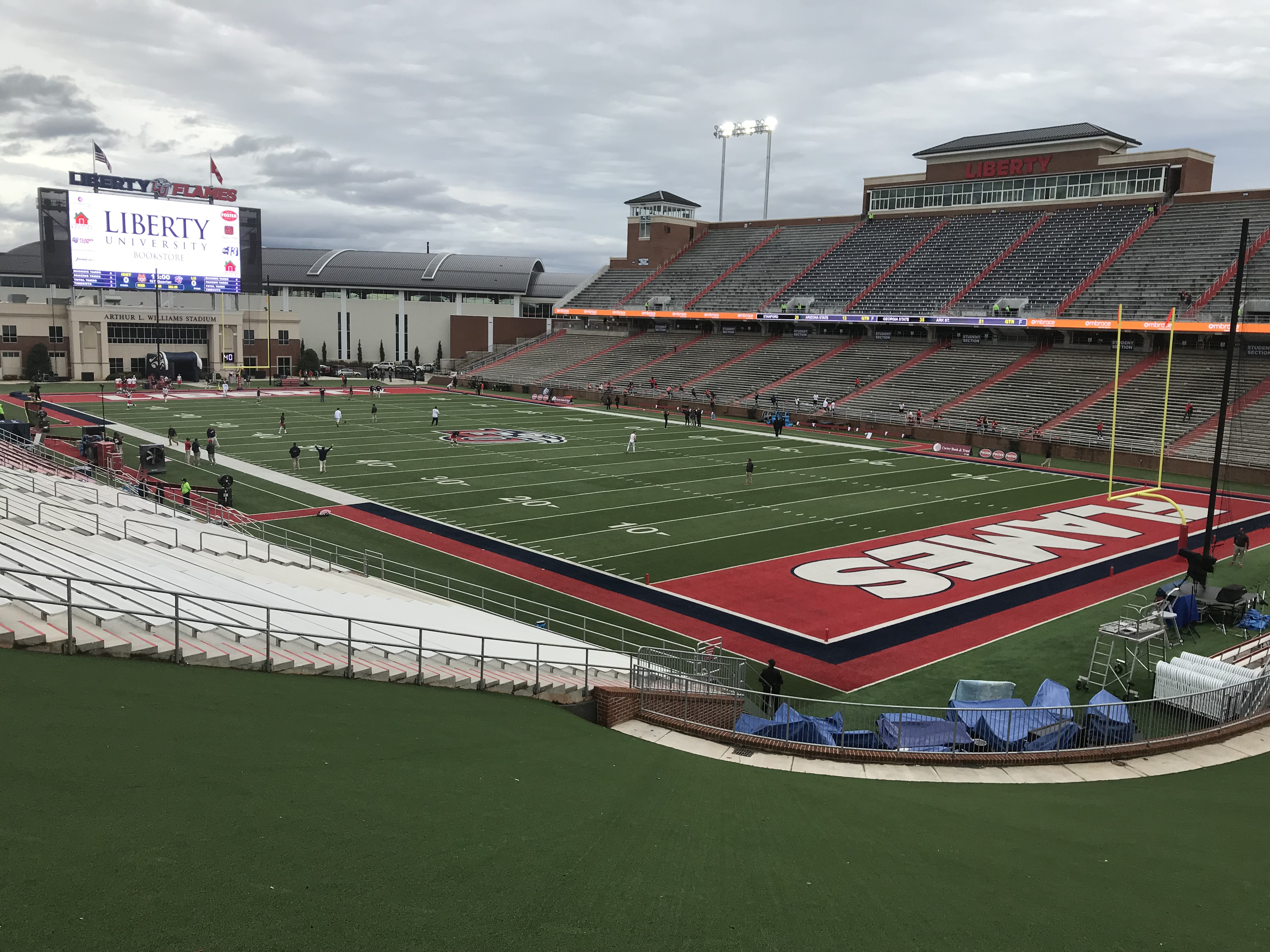 A view of the interior of Williams Stadium in 2018.